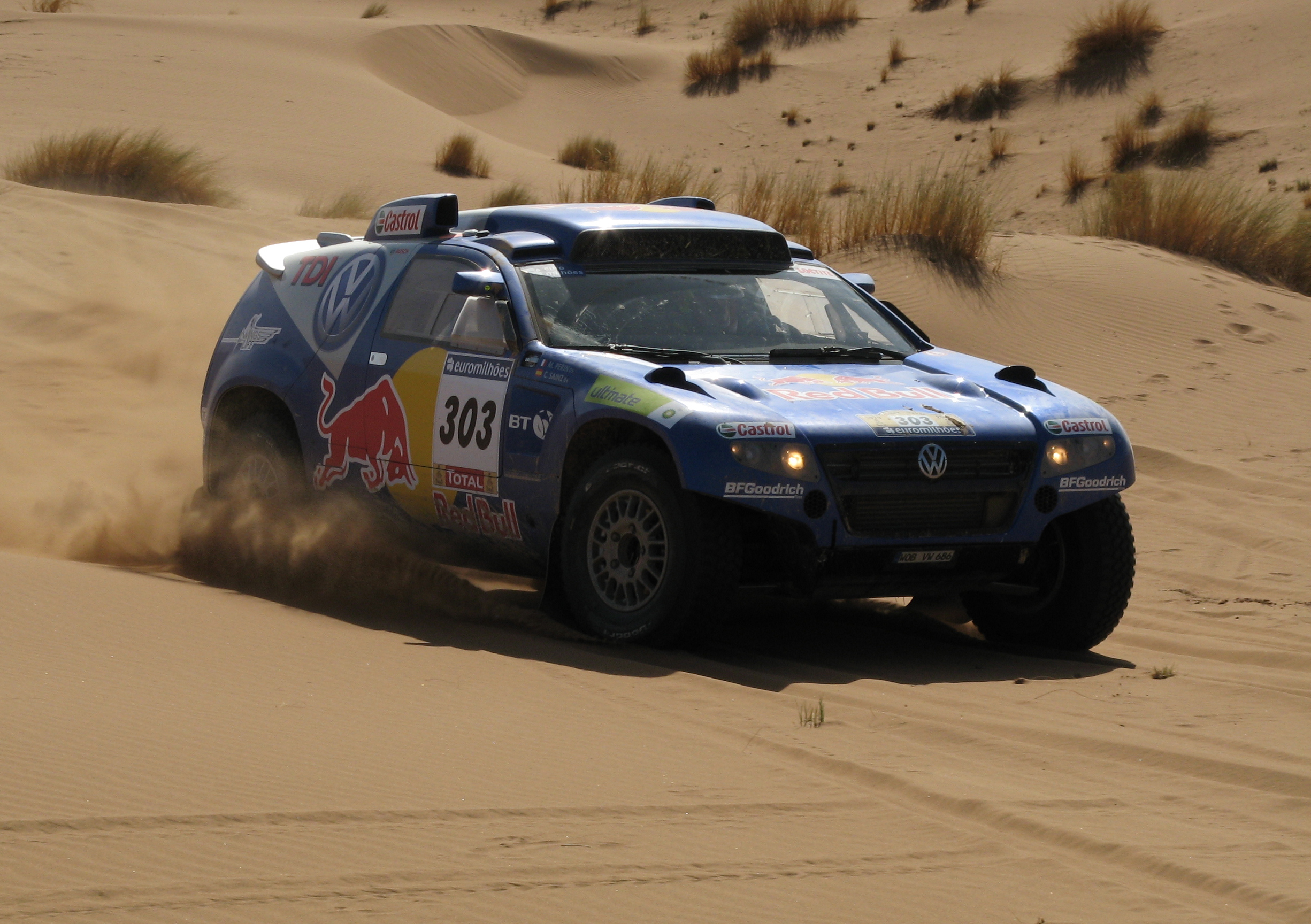 A car being driven by Carlos Sainz / Michel Perin in Dakar race, 2007